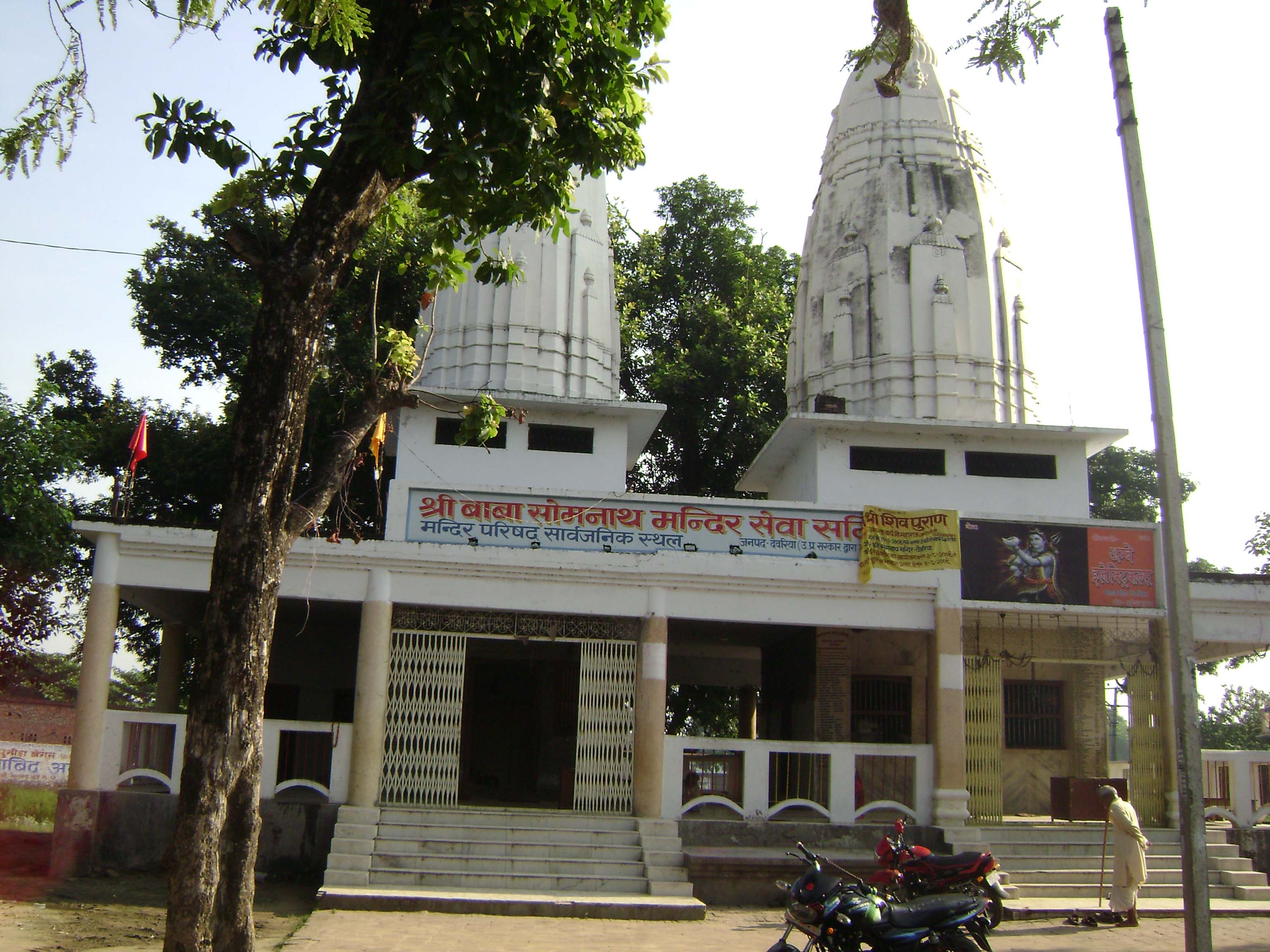 Lord Shiv temple, located on Deoria Kasia by pass.